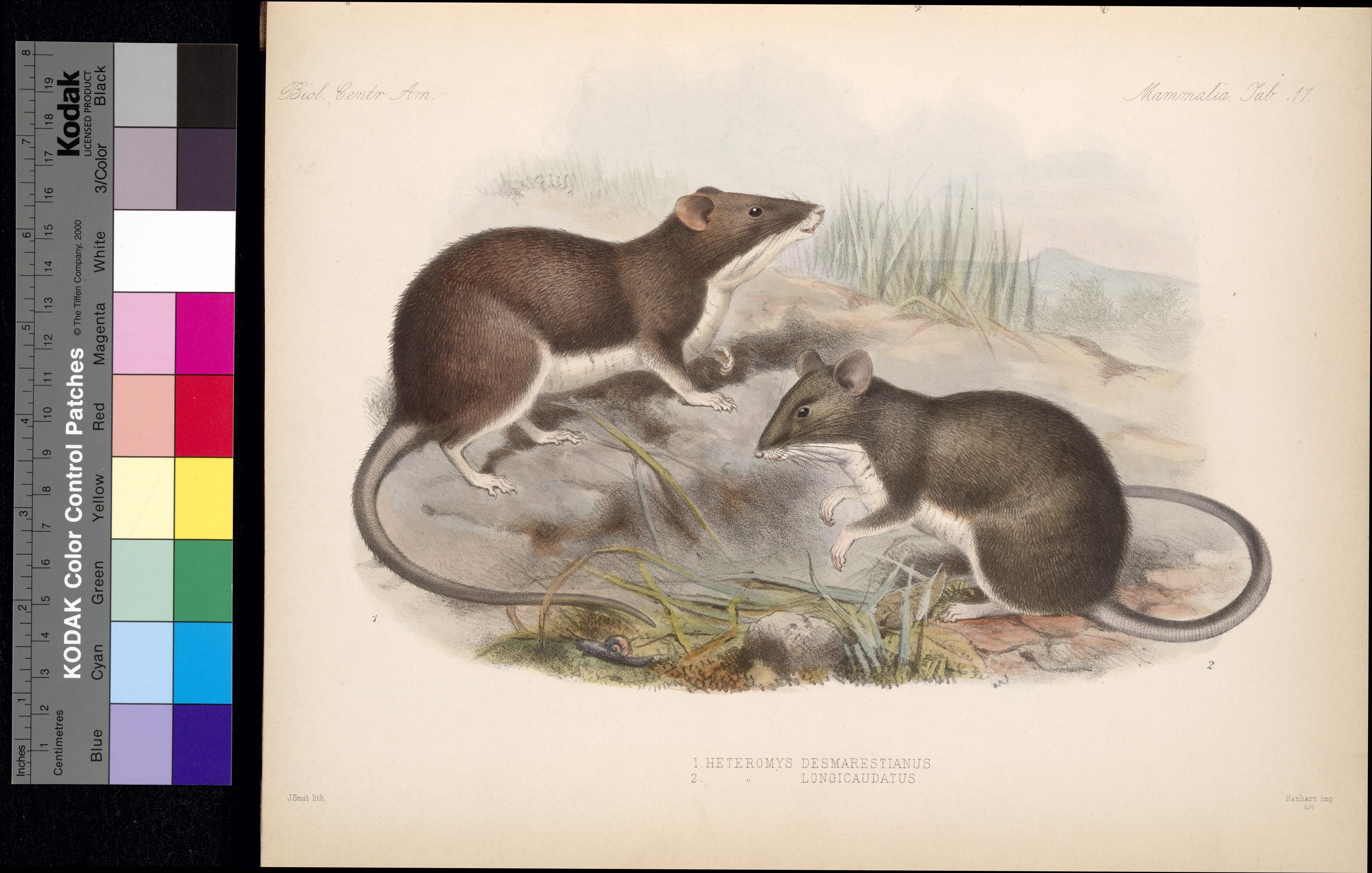 Heteromys desmarestianus & H. d. longicaudatus syn. H. longicaudatusBiologia Centrali-Americana :zoology, botany and archaeology /edited by Frederick Ducane Godman and Osbert Salvin.